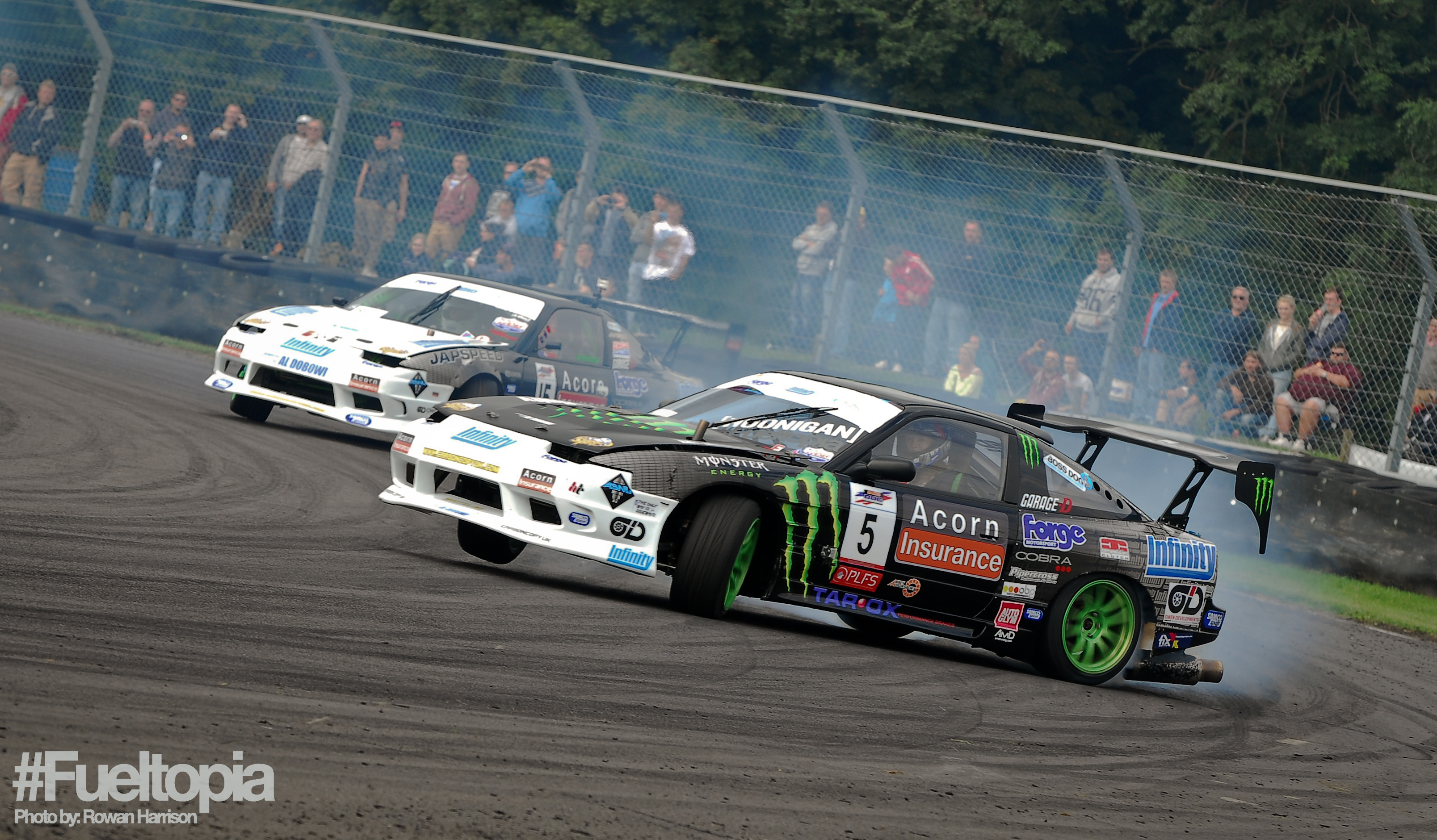 Forge Motorsport Action Day Castle Combe 2013